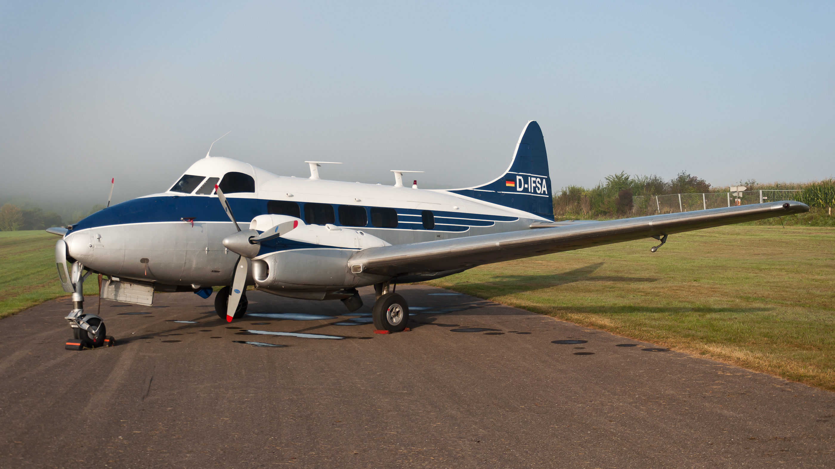 De Havilland DH-104 Dove 7XC (D-IFSA, cn 04531) at "Oldtimer Fliegertreffen" Hahnweide (EDST) 2011.